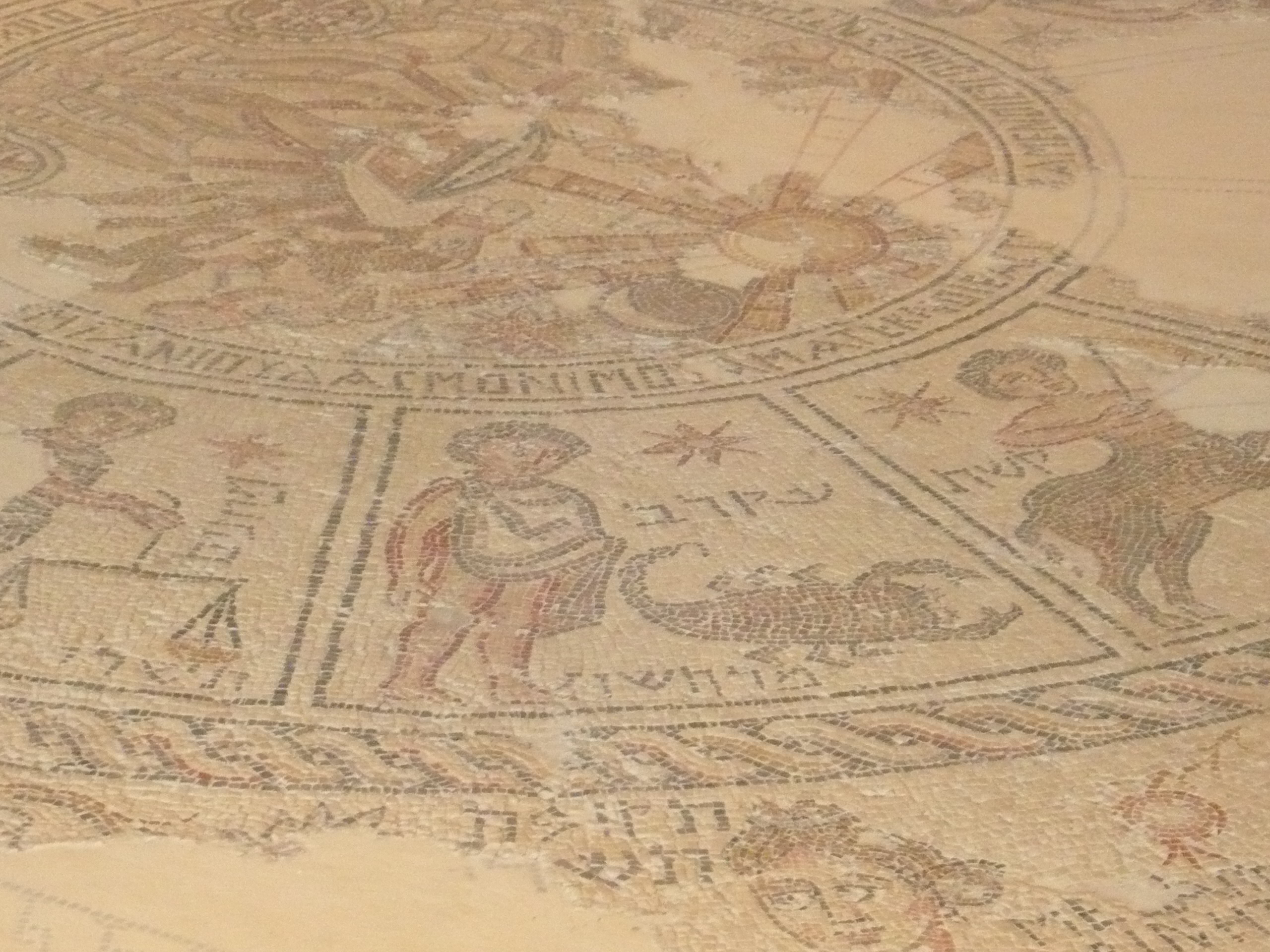 astrological sign scorpio month of Heshvan. datil from the zodiac mosaic in the ancient synagogue in Tzippori מזל עקרב, חודש מרחשוון, פרט מפסיפס גלגל המזלות בבית הכנסת העתיק בציפורי